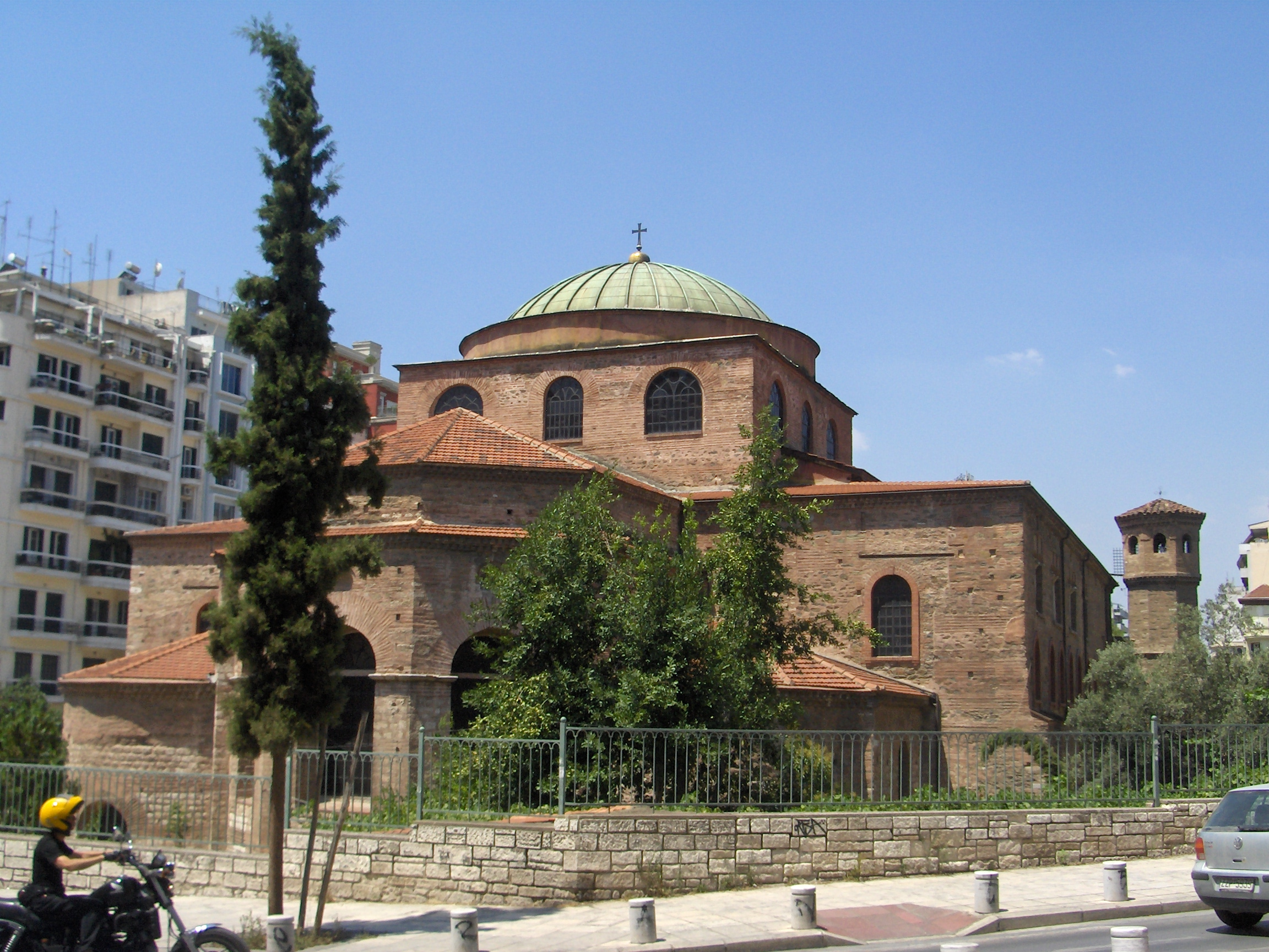 Exterior view of Aghia Sophia in Thessaloniki.